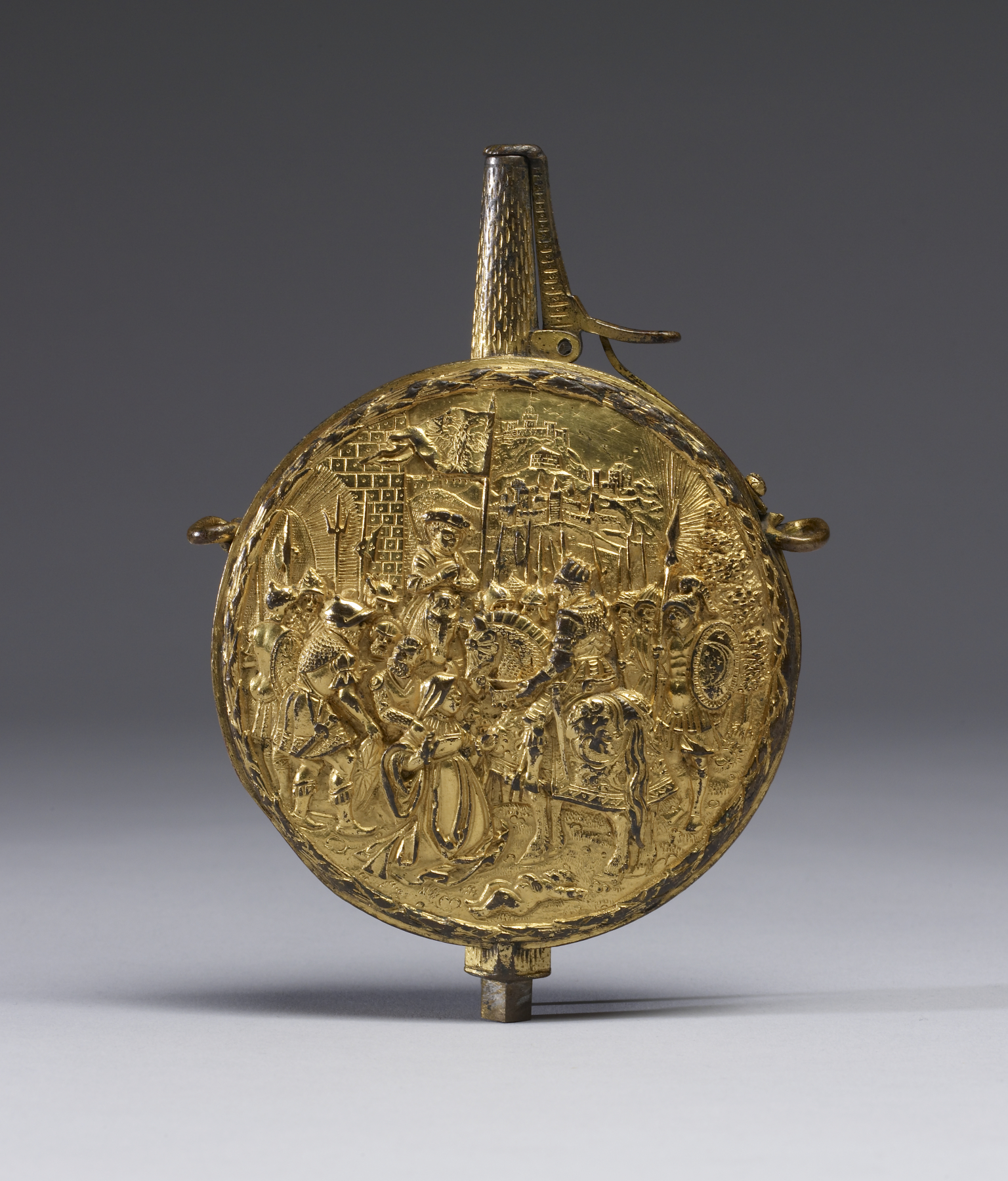 The fine relief represents the emperor Trajan (AD 98-117), setting out on horseback from Rome, who is approached by a poor widow who calls out, "To Trajan I appeal for justice!" Her only son had been murdered, and she was unable to obtain justice. Having established the truth of her story, Trajan satisfied her appeal. His concern for justice was admired in his own and later times. A pennant with the Habsburg imperial double-headed eagle carried here by one of the emperor's guards is meant to suggest that the Habsburgs as Holy Roman Emperors are the political descendants of the ancient Roman emperors and are as concerned with justice as was Trajan. The use of a finely wrought relief for a flask suggests that it was meant as a present, given the imagery, perhaps even for the Habsburg Holy Roman Emperor Charles V (1500-1558). The relief also exists as an independent plaque, and the same artist made other plaques, but his name remains unknown.